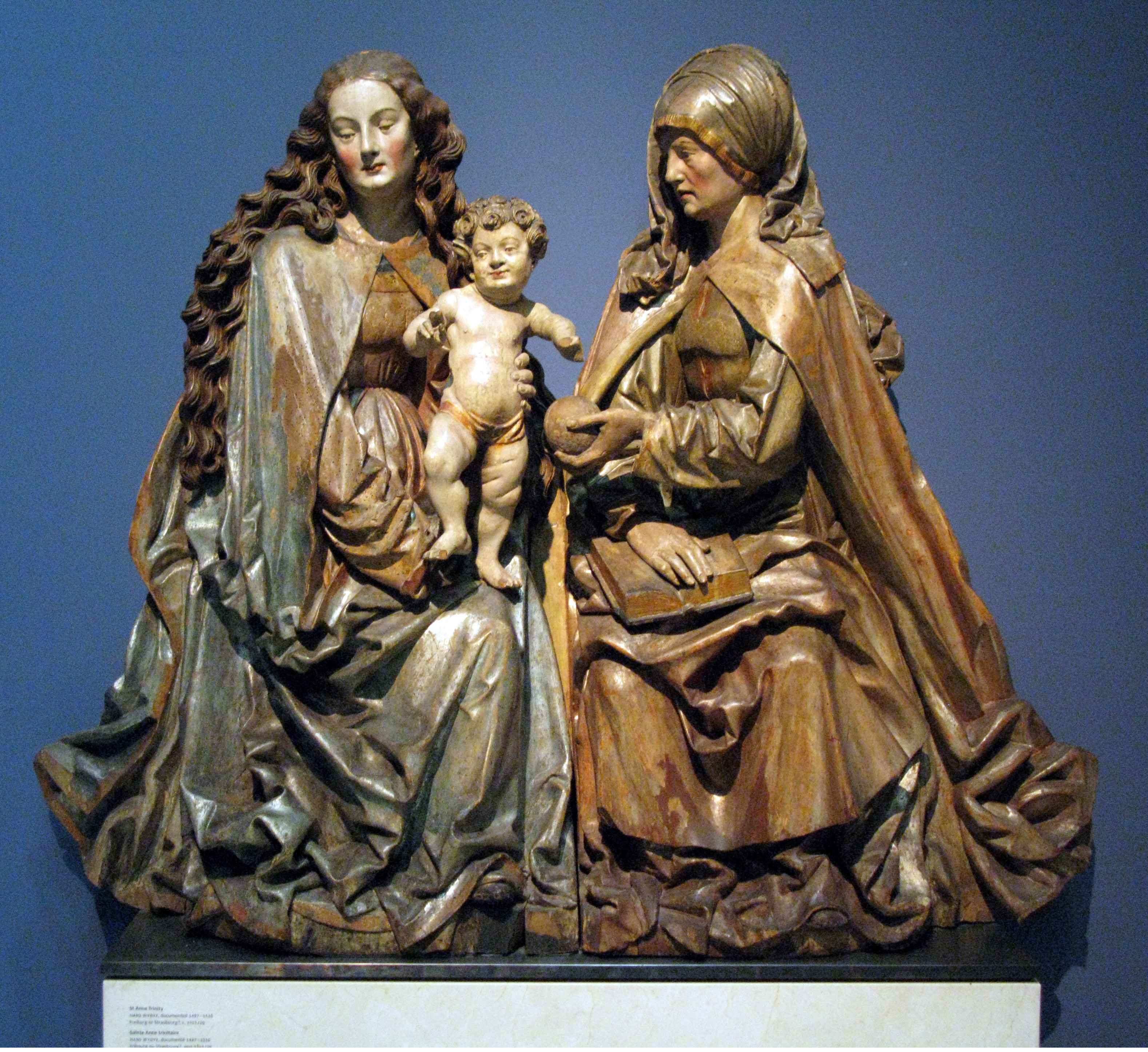 Hans Wydyz: Hl. Anna selbdritt; Augustinermuseum Freiburg